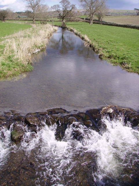 River Eea Eea that's nice